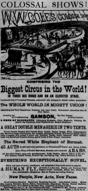 Advertisement for W.W. Cole's Colossal Shows, as published in the Los Angeles Herald of September 24, 1884, page 5. This is only the bottom part of the ad.